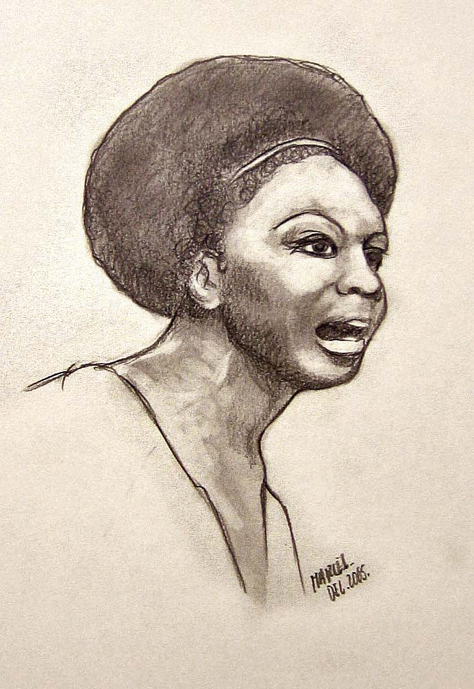 This drawing (pencil on a4 paper) depicts singer, pianist and civil rights activist Nina Simone in the mid- to late sixties, the high-point of her commercial career. Her hair style (she was one of the first artists to publicly wear an afro) and emotive, slightly agressive expression are illustrative of her character at the time.